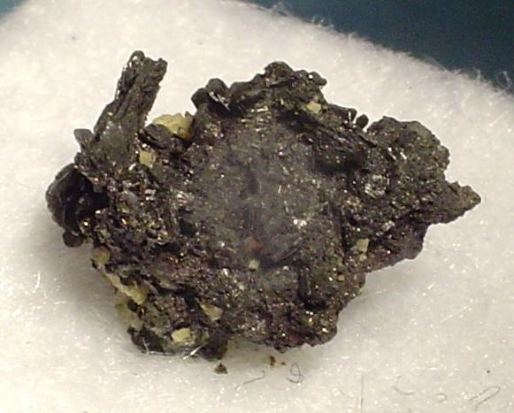 Sternbergite Locality: Jáchymov (St Joachimsthal), Jáchymov (St Joachimsthal) District, Krušné Hory Mts (Erzgebirge), Karlovy Vary Region, Bohemia (Böhmen; Boehmen), Czech Republic (Locality at ) Size: 1.5 x 1.0 x 0.9 cm. Sternbergite is a rare silver, iron sulfide and this excellent, rich thumbnail is from the Type Locality - Jachymov, Bohemia, Czech Republic. Scintillating to moderate-lustre, burnished, violet-blue sternbergite blades and crystals comprise this thumbnail, which is solid sternbergite. Eye-visible crystals of sternbergite are rare and the large blade on the left side is 8 mm on this remarkable old specimen.